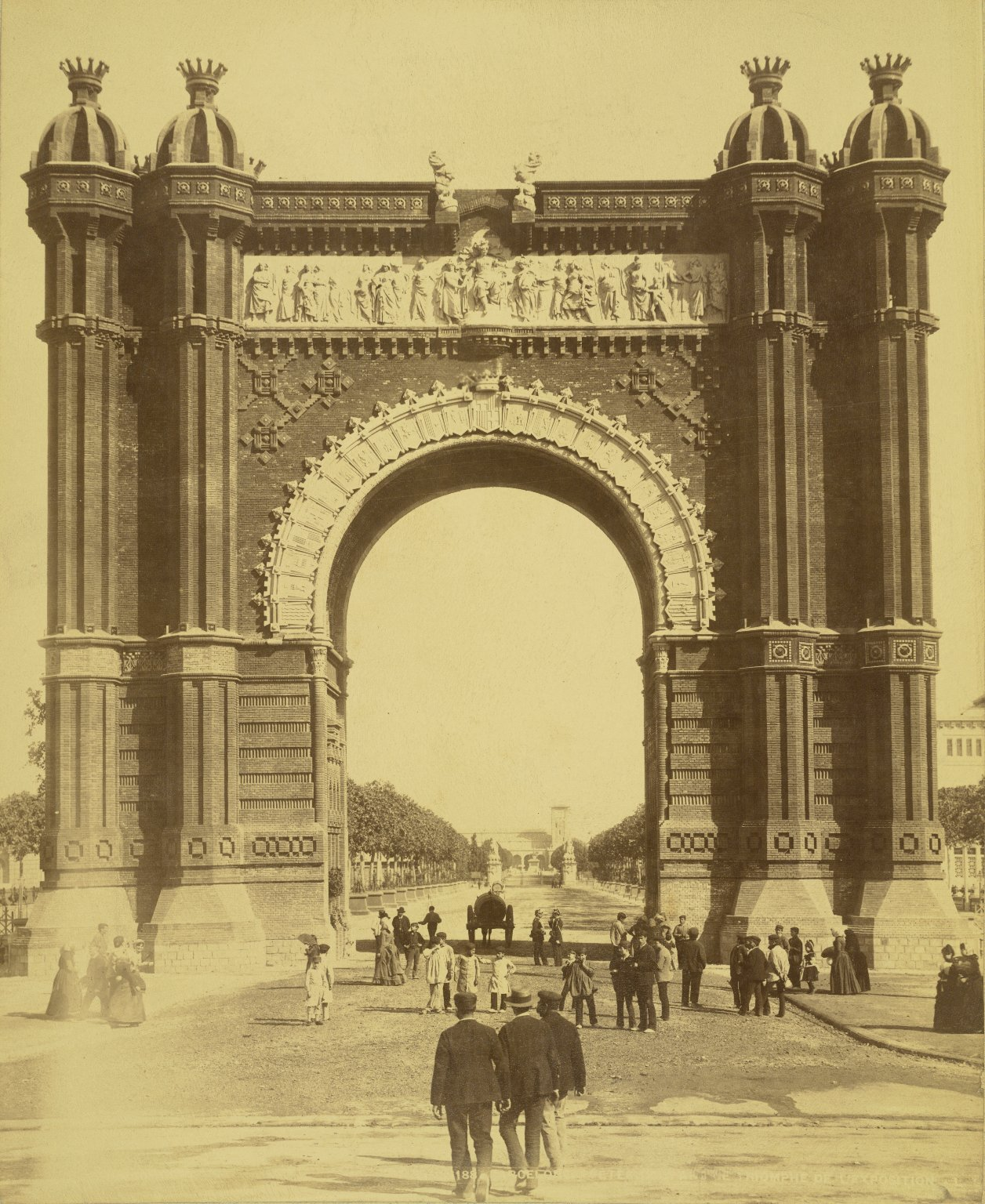 Collection: A. D. White Architectural Photographs, Cornell University Library Accession Number: 15/5/3090.01615 Title: Barcelona. Triumphal Arch of the Exposition Photographer: M. and Lévy, J. Léon (French photographic studio, active 1860-1880) Architect: Josep Vilaseca i Casanovas (Spanish, 1848-1910) Arch date: 1888 Photograph date: ca. 1888-ca. 1901 Location: Europe: Spain; Barcelona Materials: albumen print Image: 11.0236 x 8.8583 in.; 28 x 22.5 cm Provenance: Gift of Charles Mason Remey Persistent URI: There are no known U.S. copyright restrictions on this image. The digital file is owned by the Cornell University Library which is making it freely available with the request that, when possible, the Library be credited as its source. We had some help with the geocoding from Web Services by Yahoo!